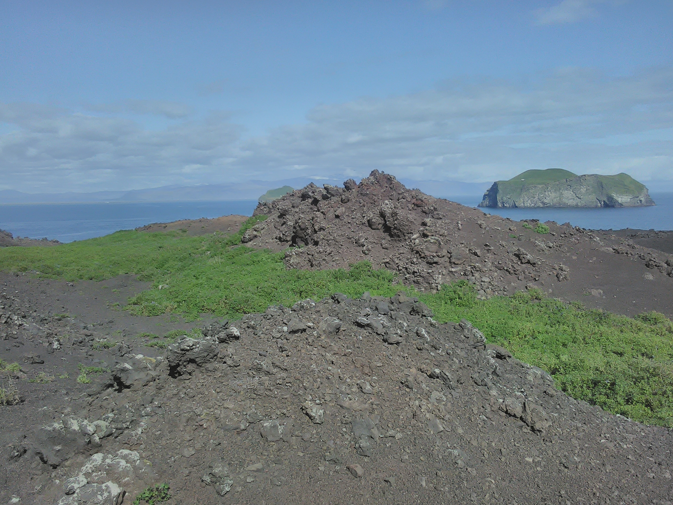 1973 volcanic field on Heimaey